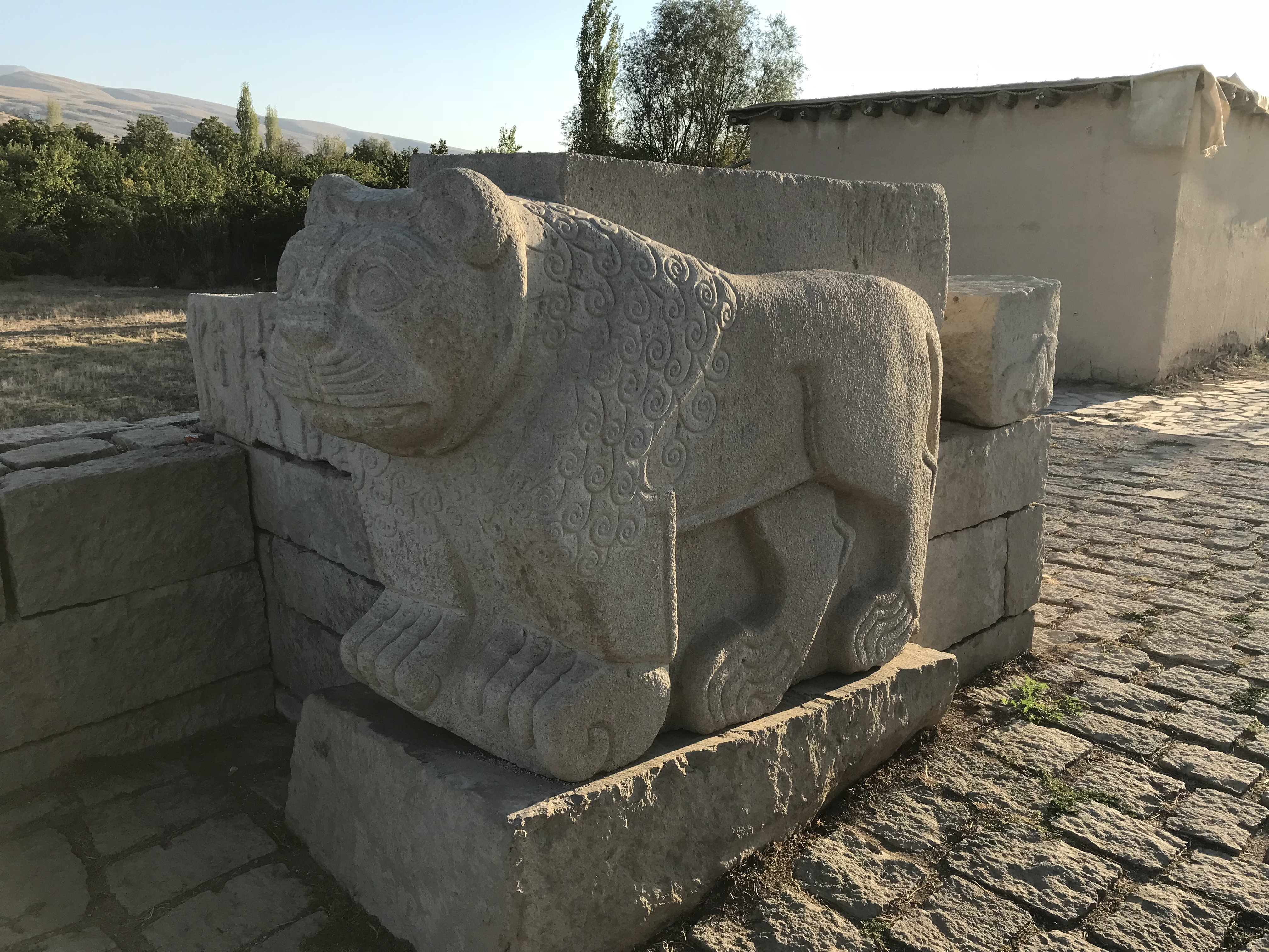 Hittite lion from Neo Hittite era (1180-700 BC) at the entrance to Arslantepe Ruins in Orduzu - Battalgazi, Malatya, Turkey.